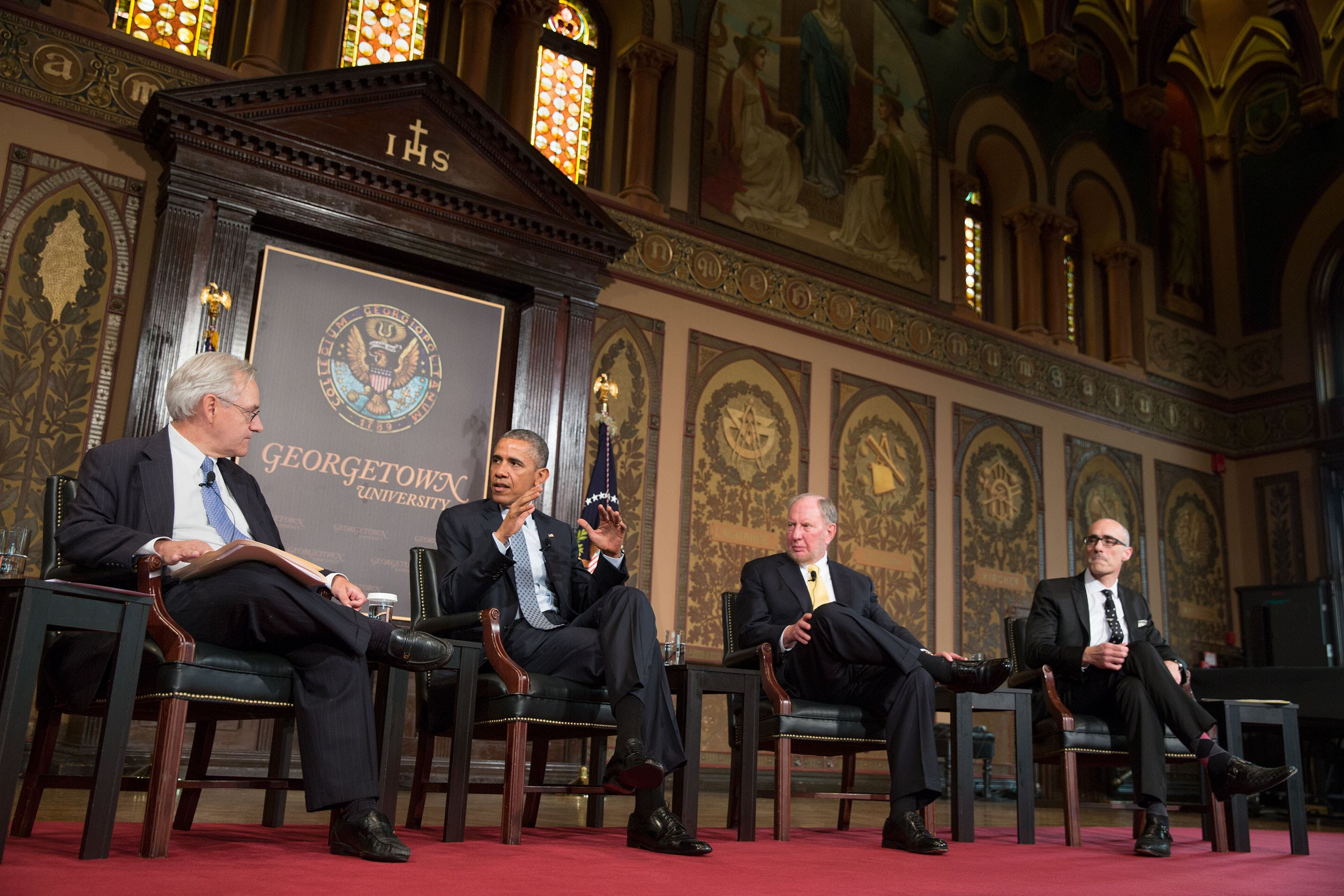 President Barack Obama participates in a discussion about poverty during the Catholic-Evangelical Leadership Summit on Overcoming Poverty, at Georgetown University in Washington, D.C., May 12, 2015. From left, moderator E. J. Dionne, Jr., Washington Post columnist and professor in Georgetown’s McCourt School of Public Policy, Robert Putnam, professor of public policy at the Harvard University John F. Kennedy School of Government and Arthur Brooks, president of the American Enterprise Institute.